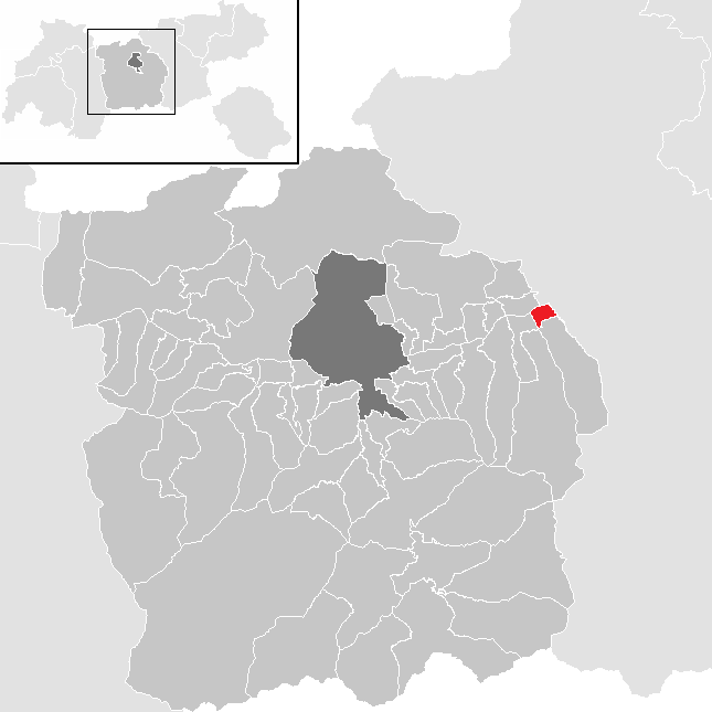 District Innsbruck Land